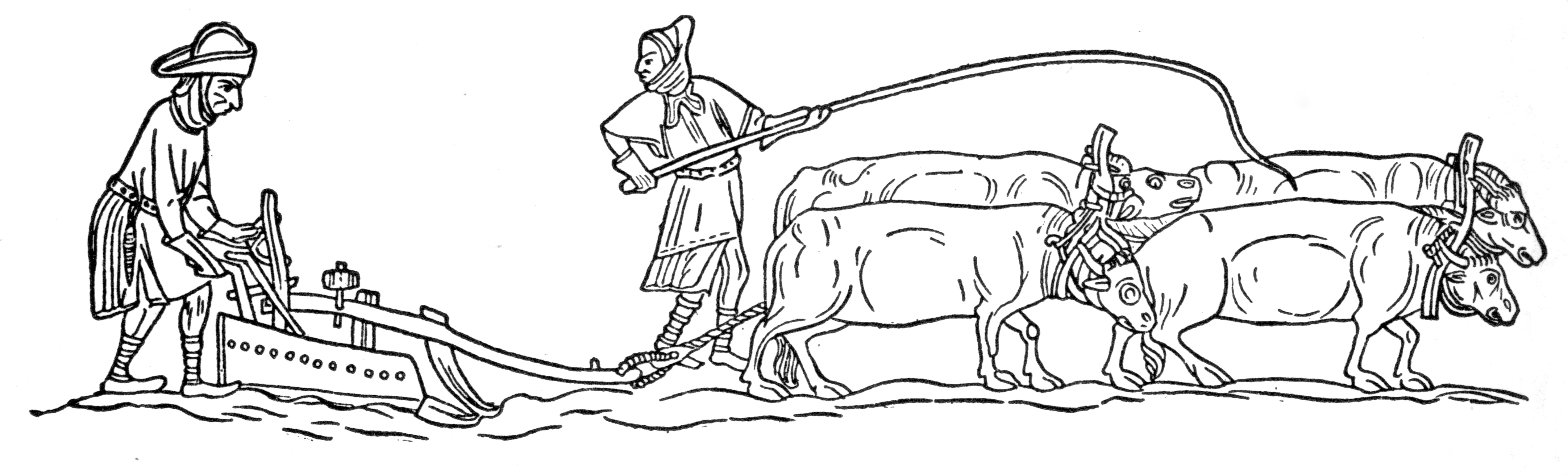 Medieval plowing with oxen (from a 14th century manuscript)